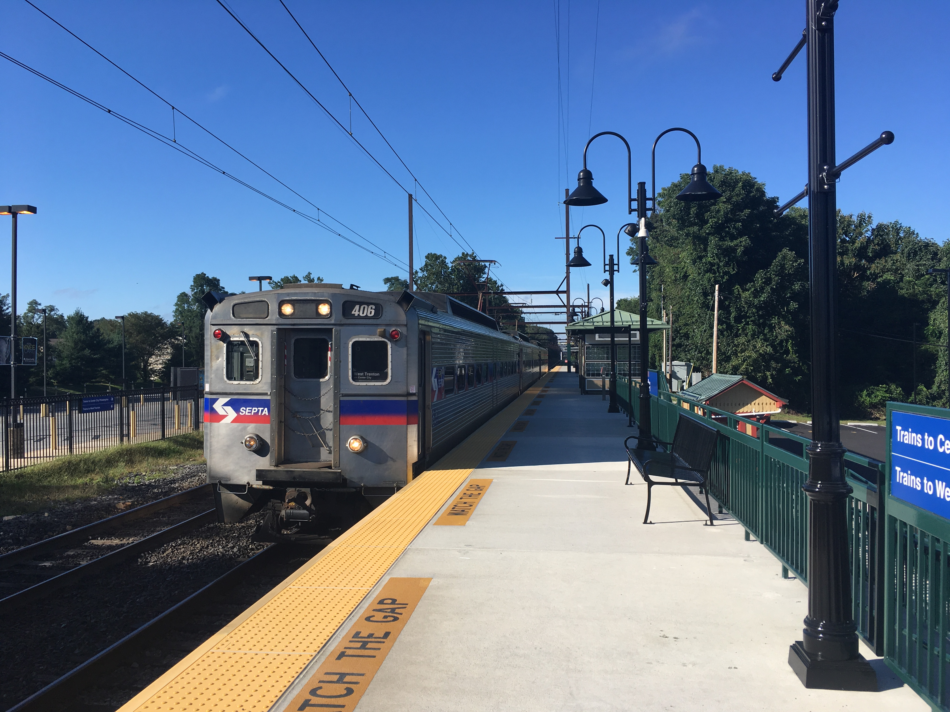 SEPTA Silverliner IV 406 on an outbound West Trenton Line train stops at Yardley station in Yardley, Pennsylvania